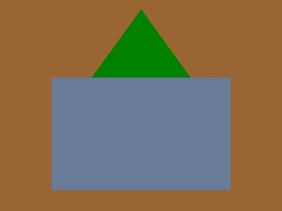 The distinguishing patch of the 42 Battalion (Royal Highlanders of Canada), CEF.